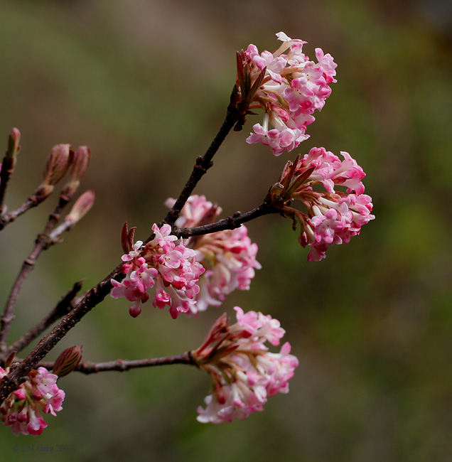 Viburnum grandiflorum in Kullu District of Himachal Pradesh, India.